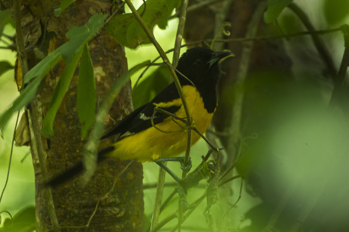 Bar-winged Oriole - Chiapas - Mexico_S4E7324